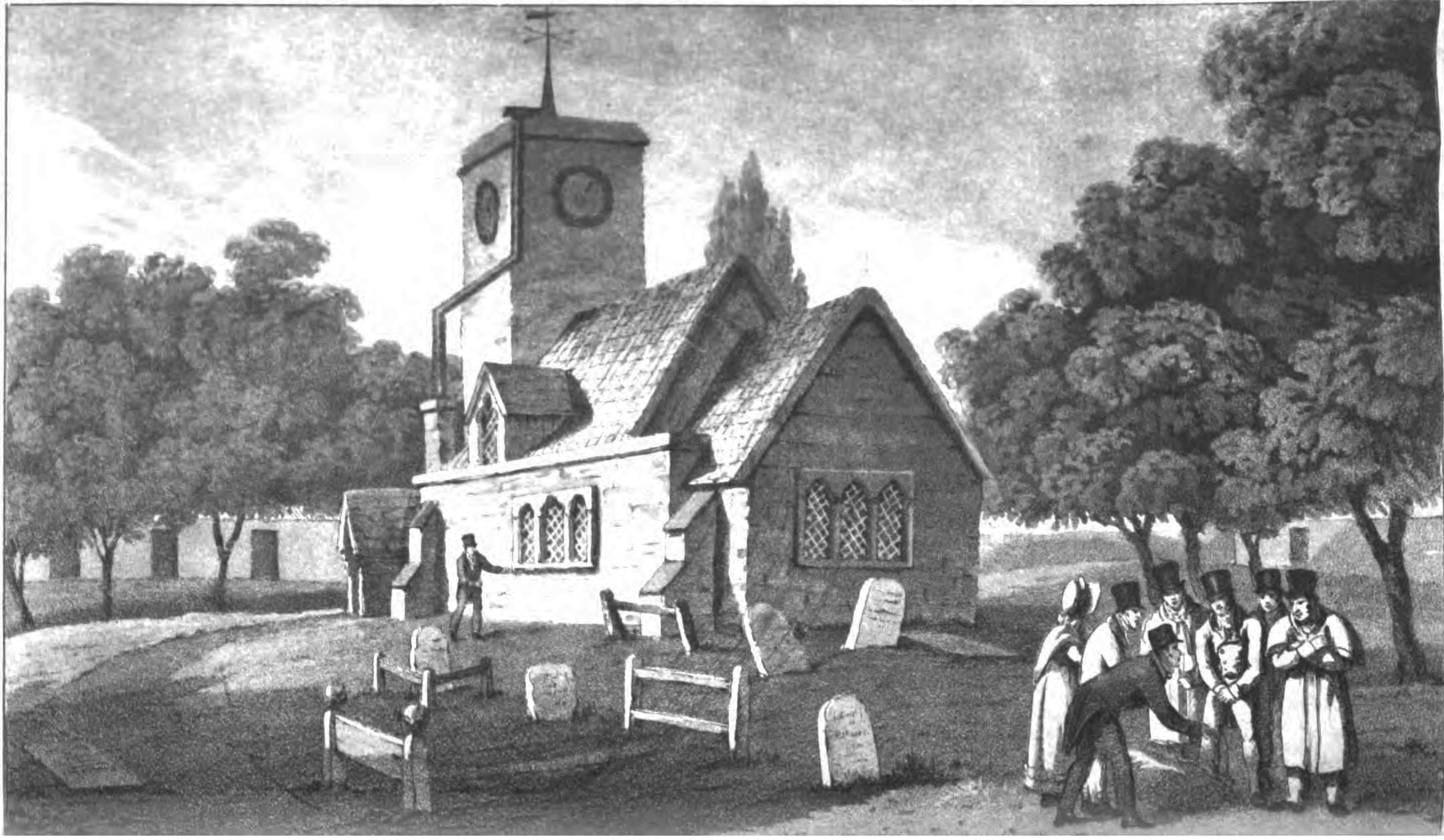 The burial of William Weare, victim of the Elstree Murder, at St Nicholas' parish church, Elstree, Hetfordshire